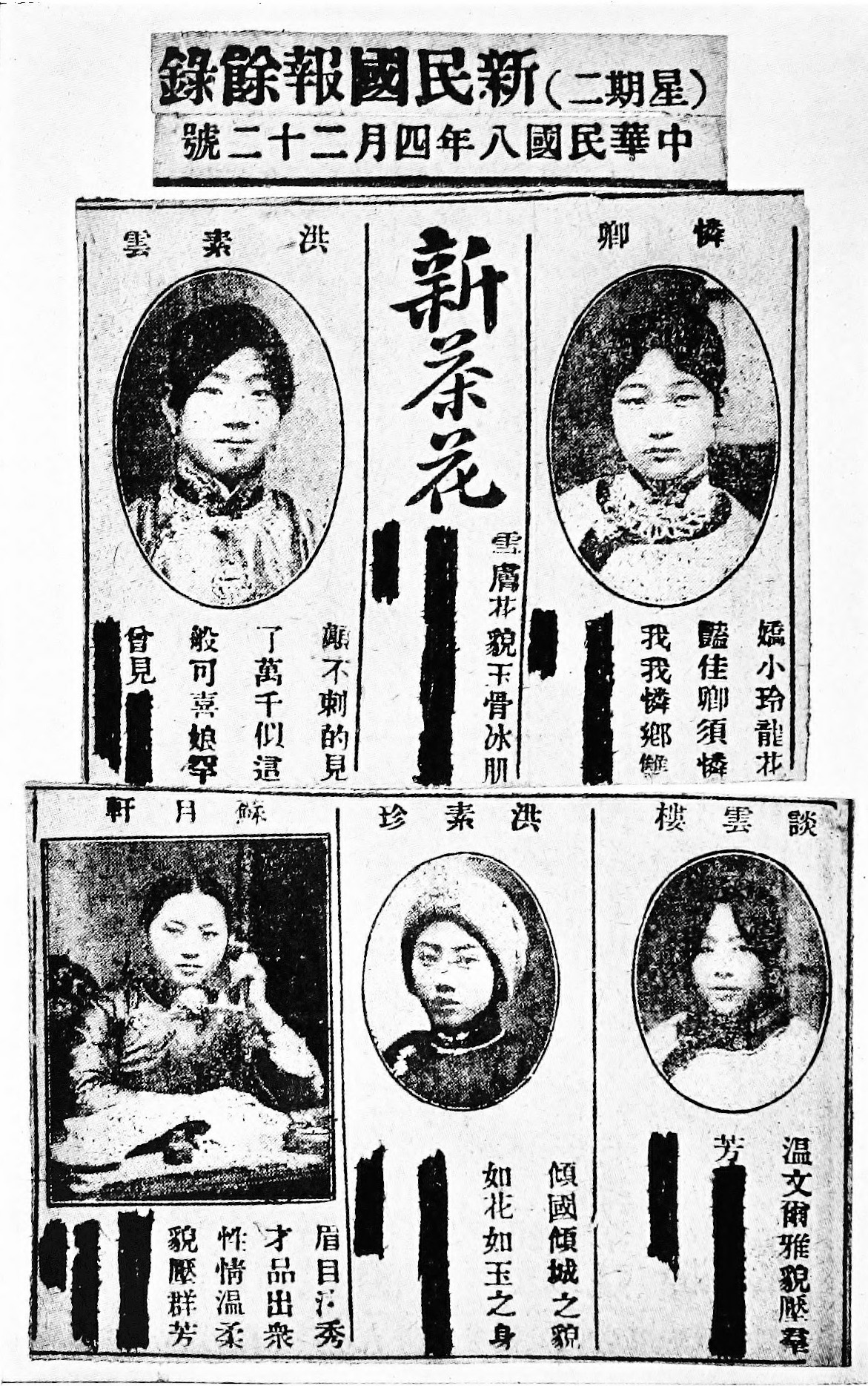 Photo from Peking, a social survey conducted under the auspices of the Princeton university center in China and the Peking Young men's Christian association (1921)